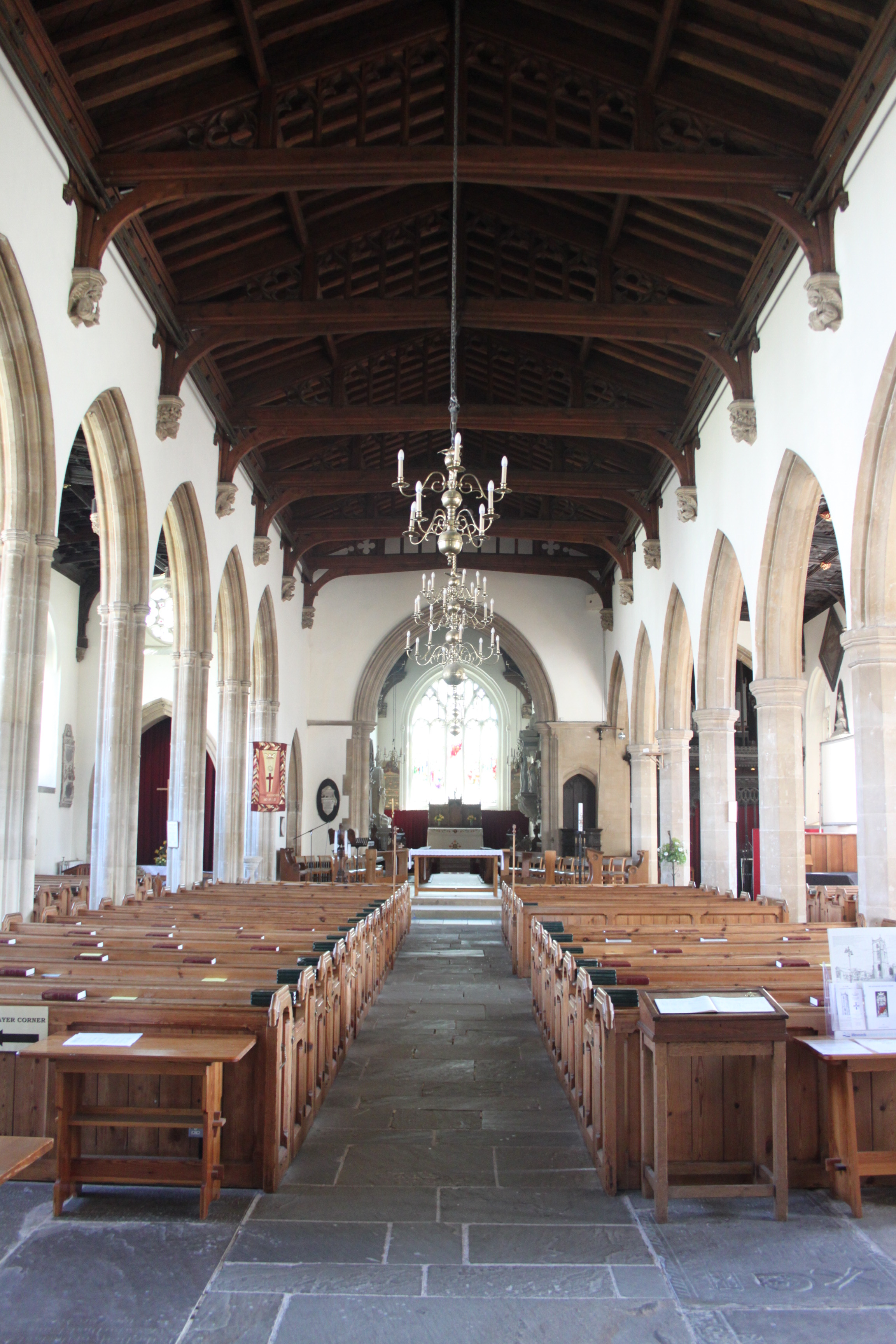 Church of St John the Baptist, Keynsham